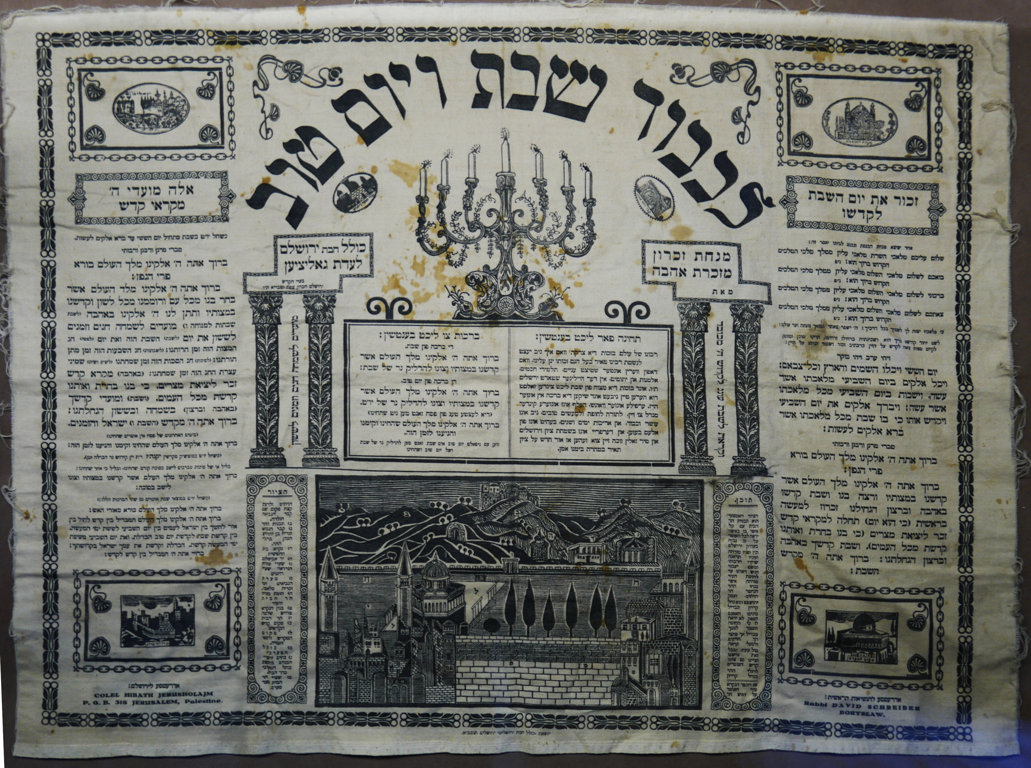 Challah cover for Shabbat, abt. 1930. This challah cover was made by rabbi David Schreiber from Boryslav and sold to raise money for Kolel Chibas Yerushalayim (est. 1830) a charity that supported Jews who had emigrated to the Holy Land from Galicia. This challah cover was found in a house in Oświęcim, Poland.